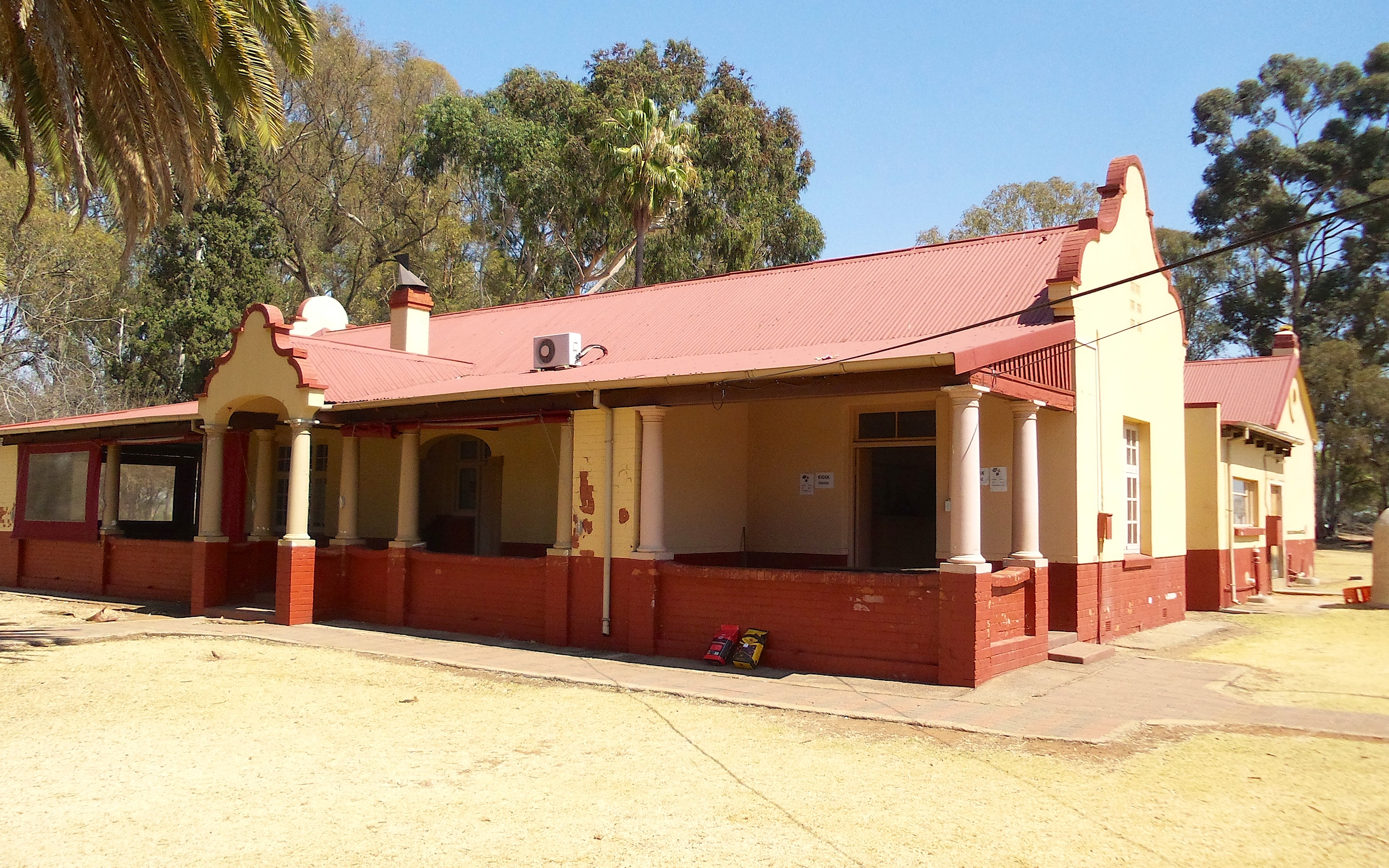 Rooihuiskraal Battlefield, Verwoerdburg, Pretoria This media shows a South African Protected Site with SAHRA file reference 9/2/258/0018.